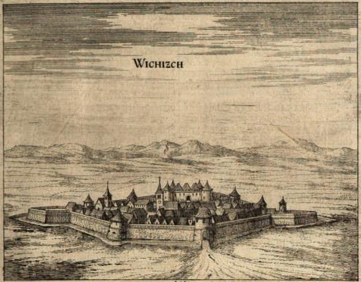 Bihać in 1689 (from Johann Weikhard von Valvasor: Die Ehre des Herzogthums Crain)